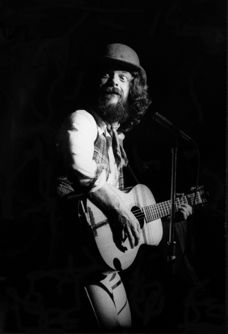 Photographed, by me, March 1978 at London's Hammersmith Odeon